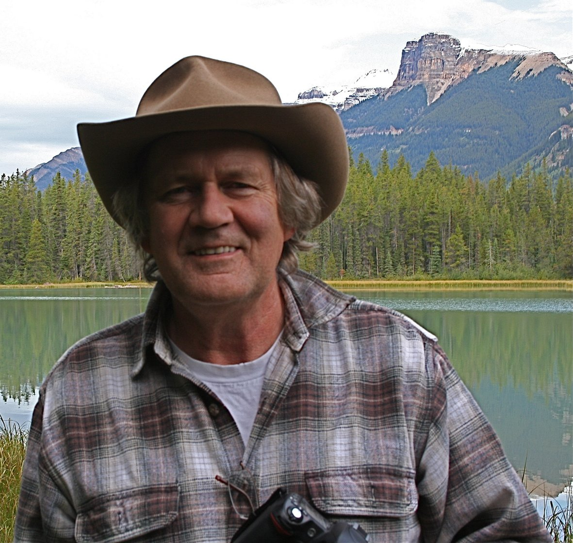 Award-winning Canadian journalist Byron Christopher on vacation in Jasper National Park, Alberta